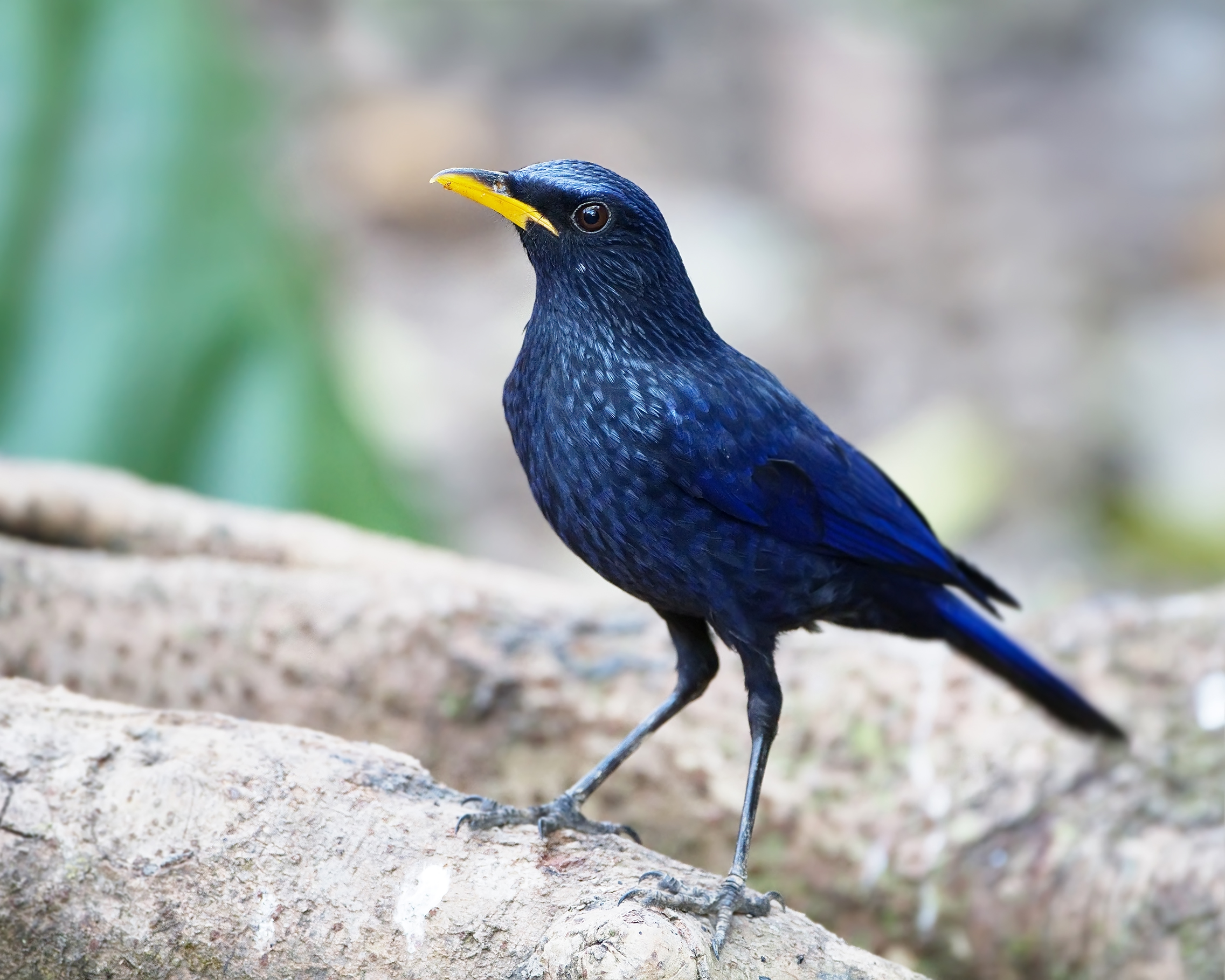 Blue Whistling-thrush (Myophonus caeruleus), Royal Agricultural Station, Ang Khang, Mon Pin, Chiang Mai, Thailand